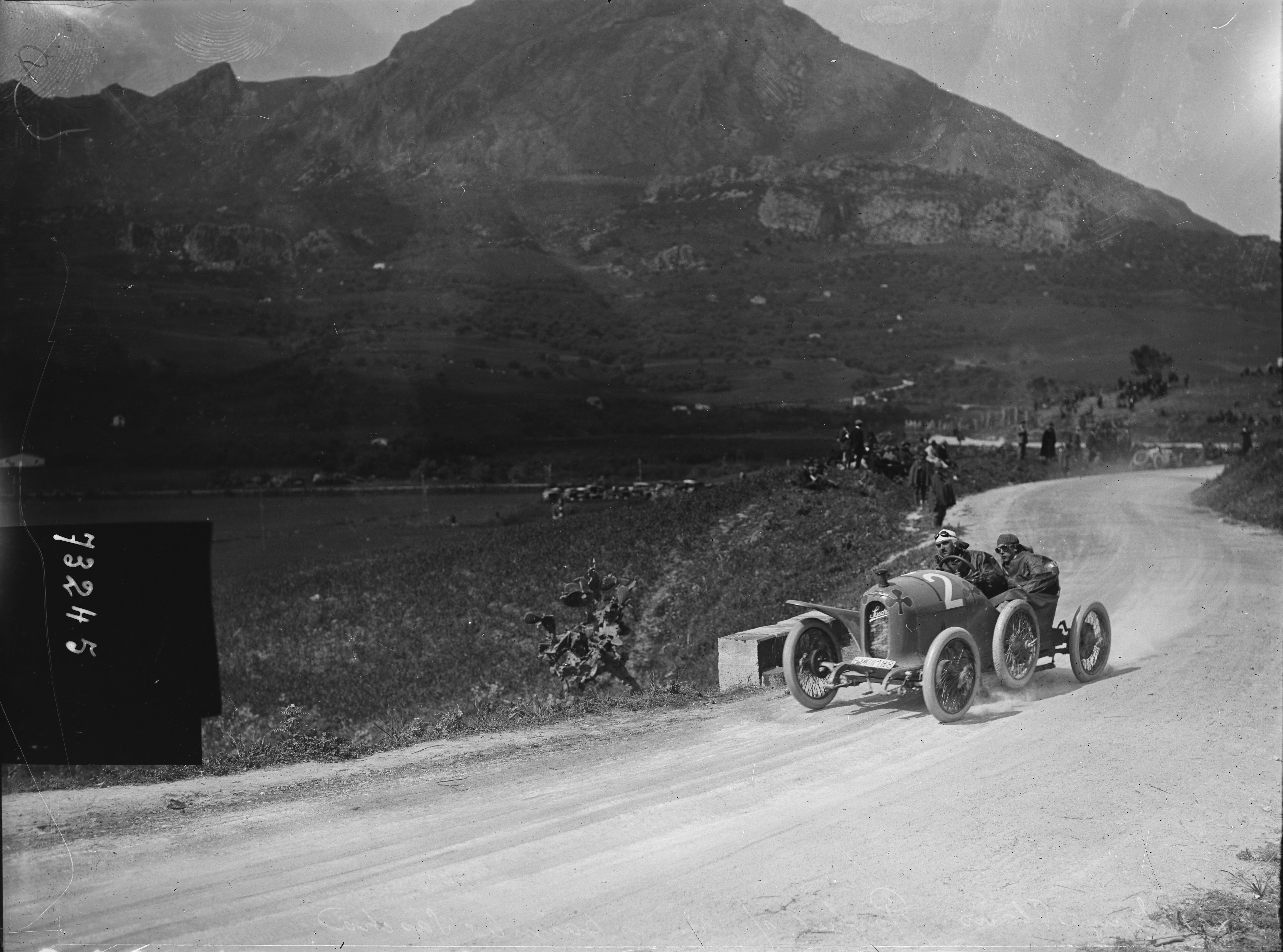 Lambert Pöcher in his Austro-Daimler at the 1922 Targa Florio.